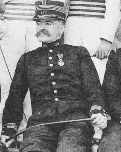 French General Mariano Goybet